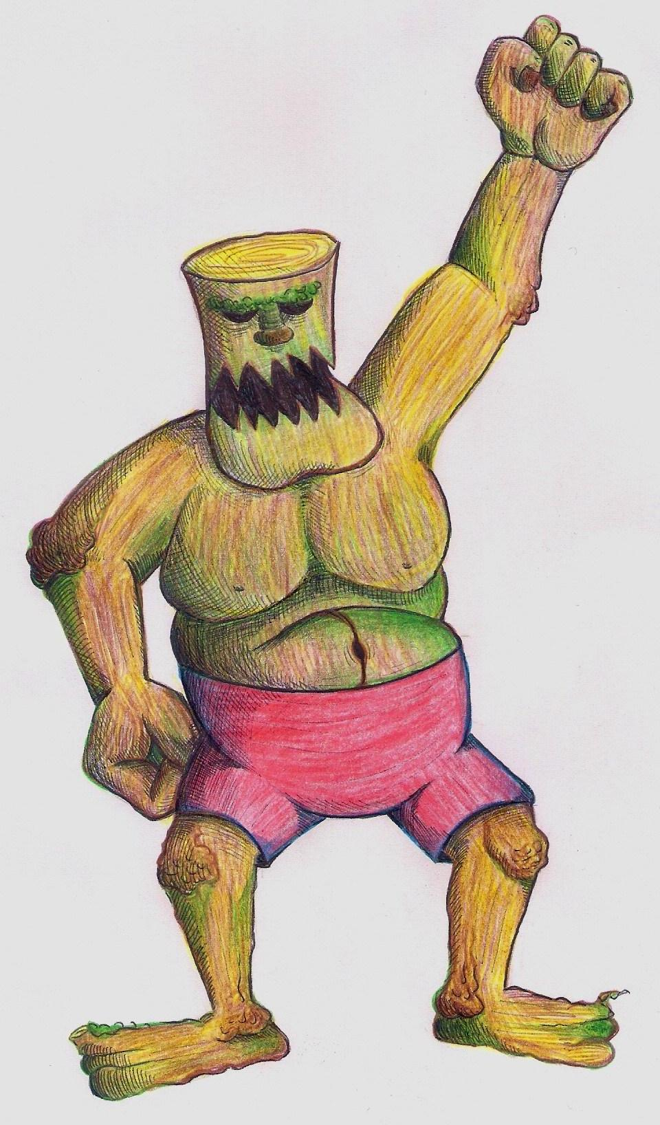 Otesánek